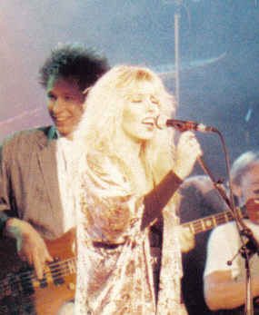 Judie Tzuke on the Cat is Out Tour at Fairfield Halls in September 1985